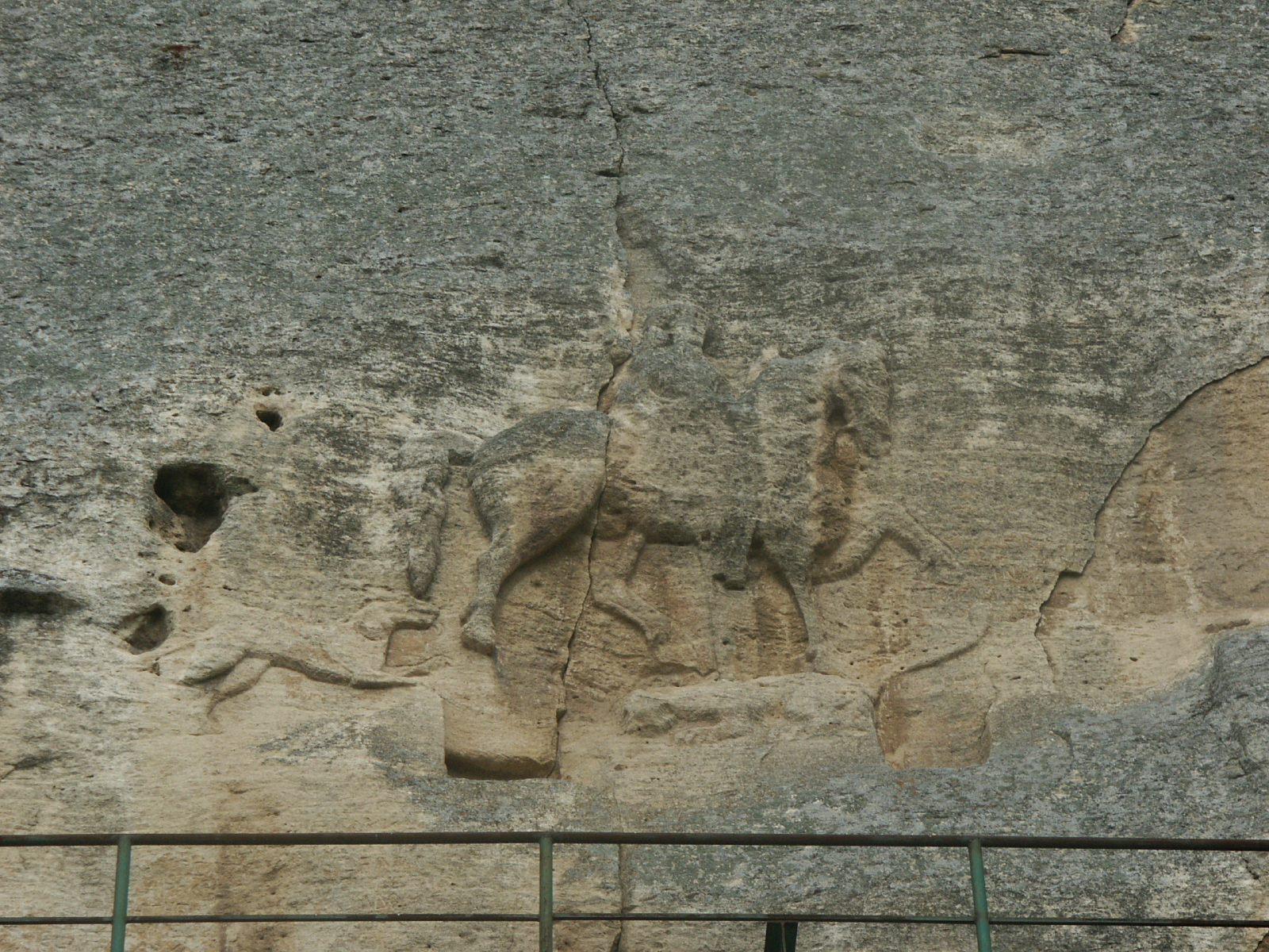 The Rock of Madara Rider from Shumen, Madara, Bulgaria, state of 2011.